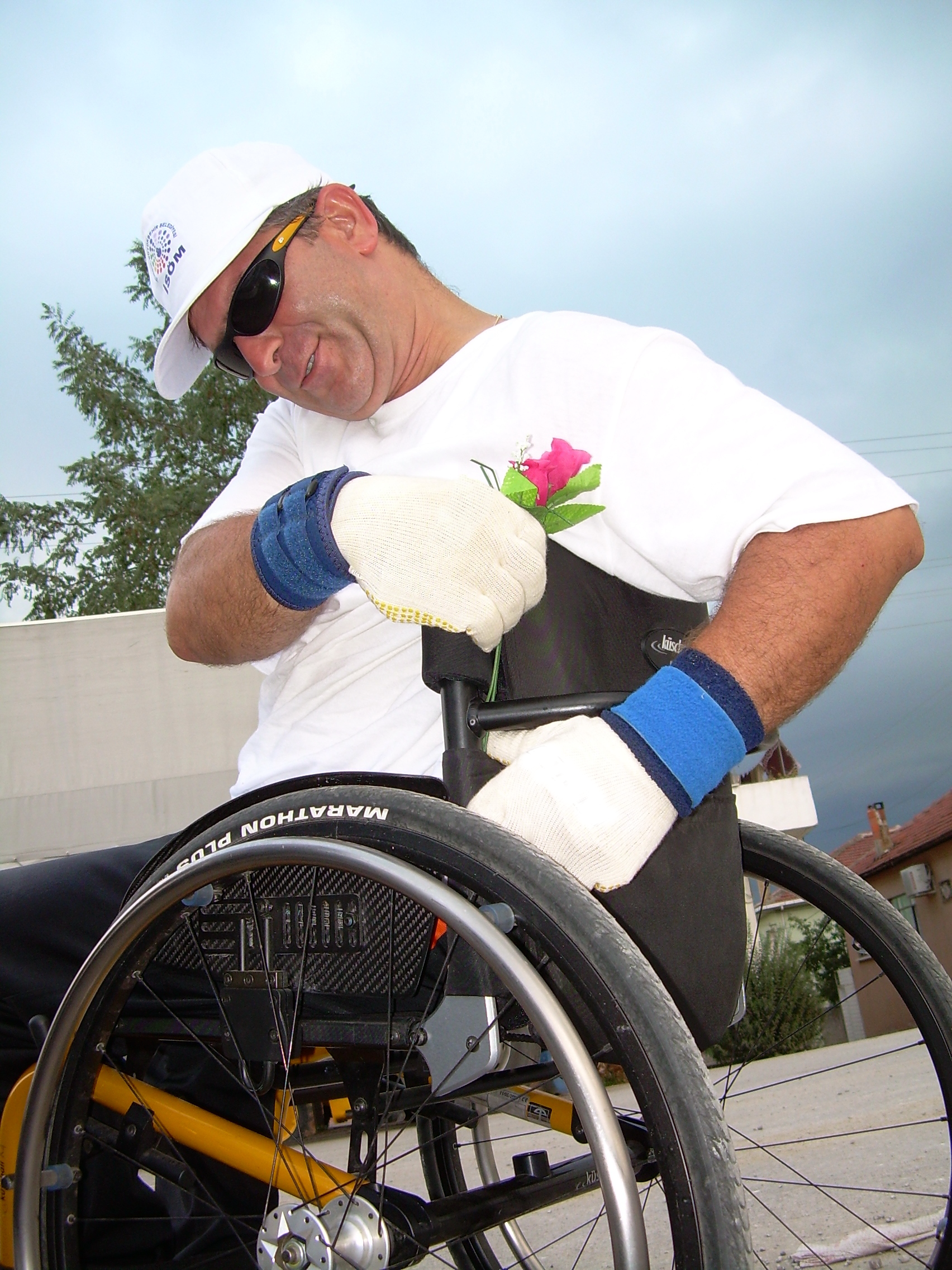 Mile Stojkoski on his journey to Beijing in 2007